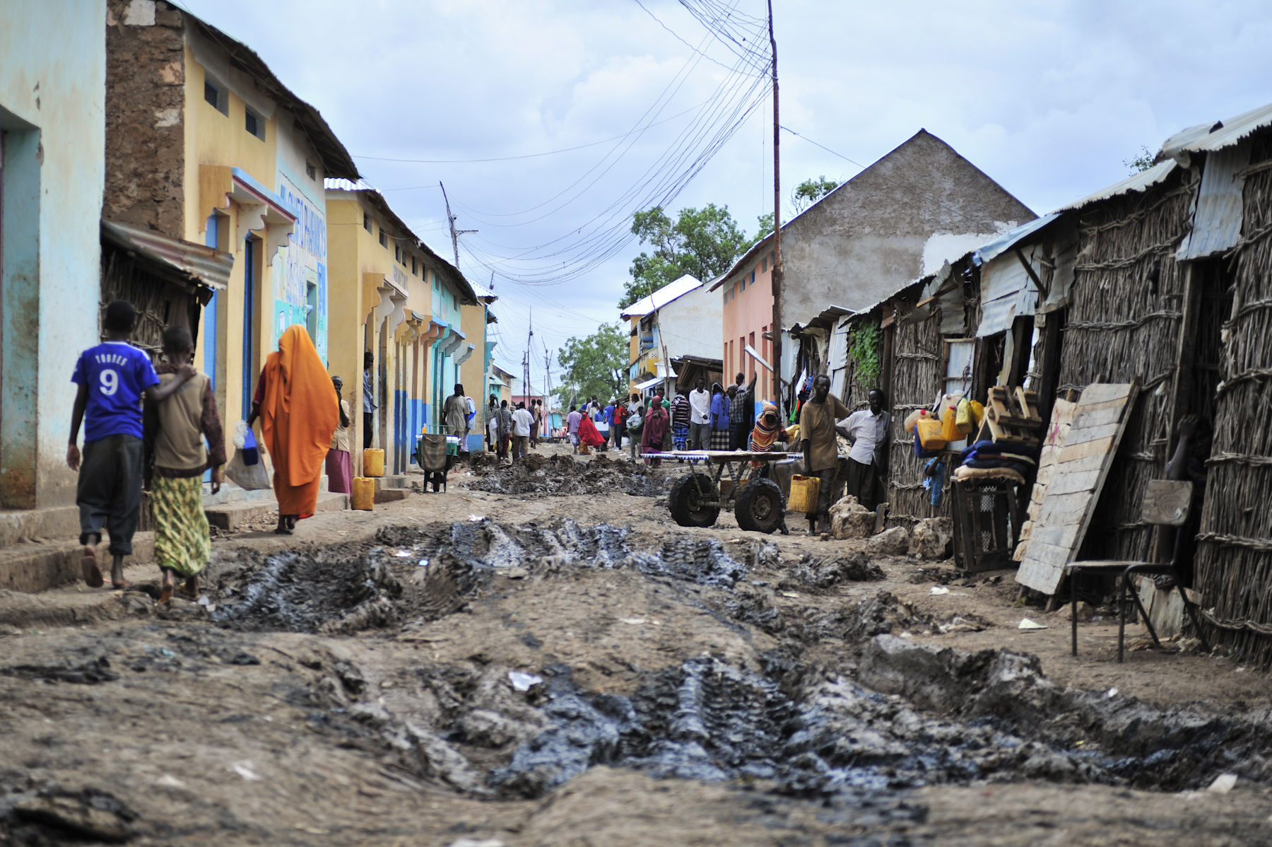 Residents in the town of Wanla Weyn resume their daily life just three weeks after the town was liberated by AMISOM forces from Al-Shabab. AMISOM forces have now passed through the town and are currently moving further up the road in an effort to gain control of the road to Baidoa. AU-UN IST PHOTO / TOBIN JONES.